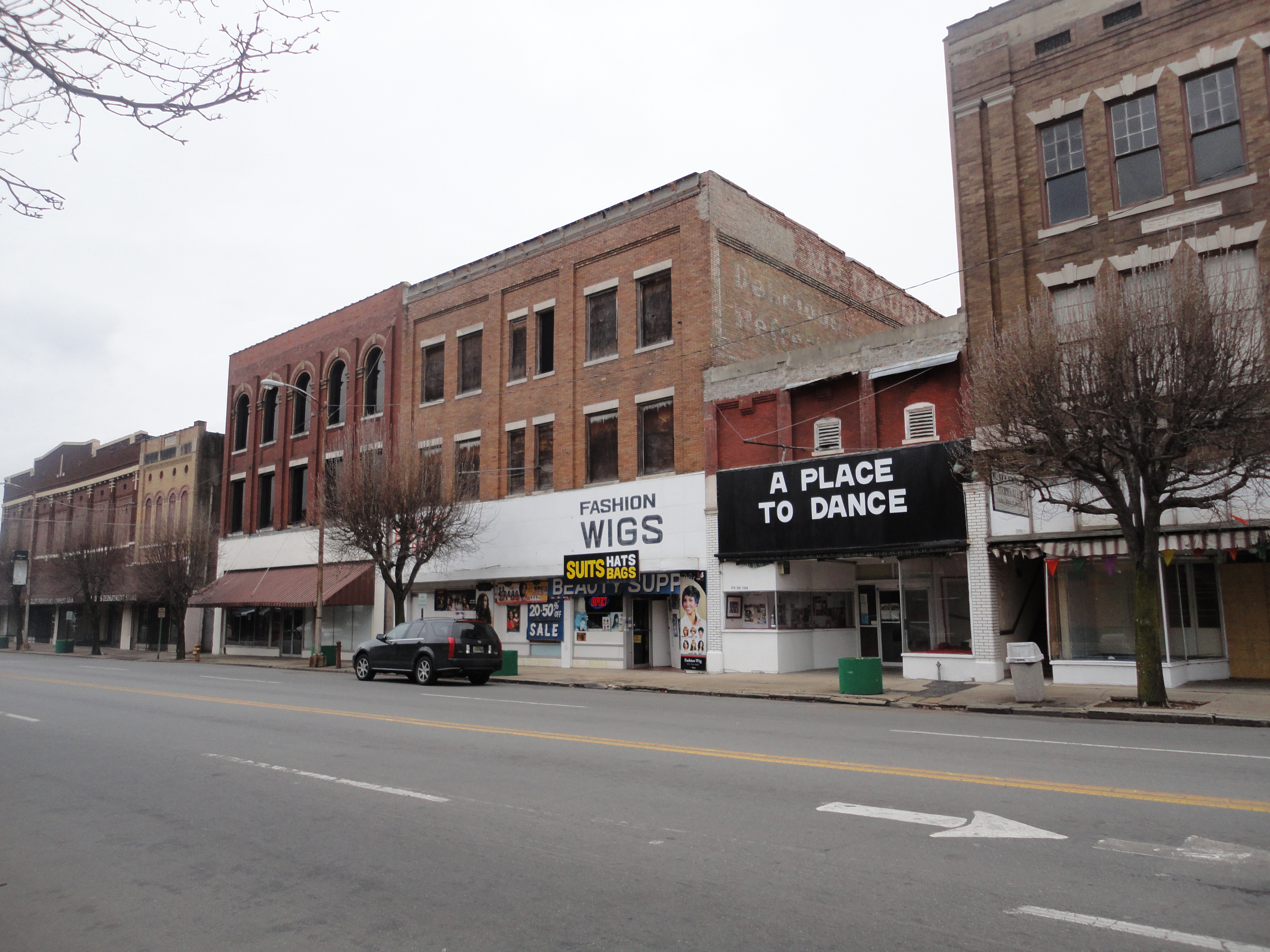 From flickr: Main Street Place to Dance - Pine Bluff, Arkansas